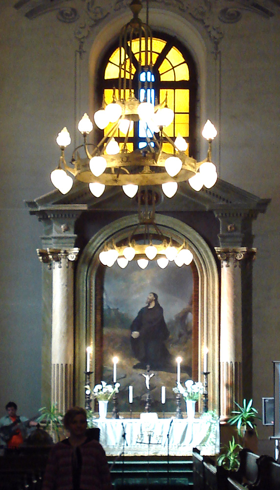 Church interior with painting of Bertalan Székely, Downtown Lutheran Church, Miskolc, Hungary